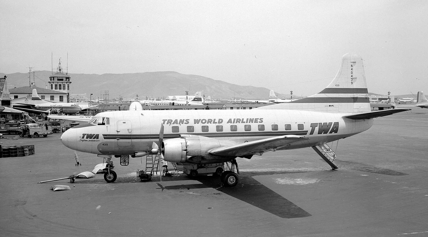 Martin 4-0-4 N40439 at San Francisco.